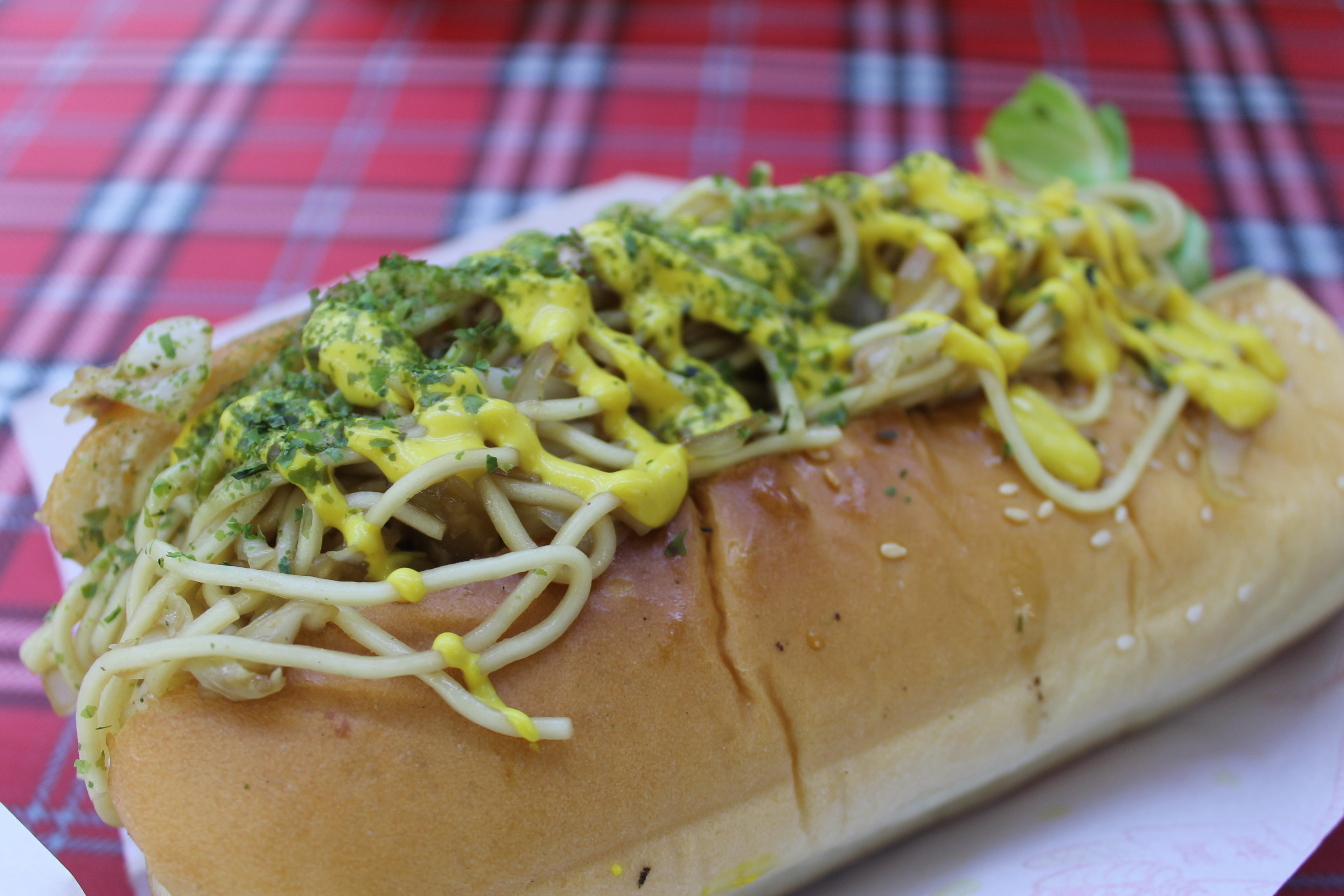 When we told people we wanted to spend three months in Taiwan, they frequently asked "Why?" This album is why: amazing national parks, delicious noodles, bubble milk tea, neon night markets, friendly people, Buddhist temples and shrines, winding trains, green mountains and tea plantations, and much, much more. Here are our travels in the isle Formosa. Follow us on